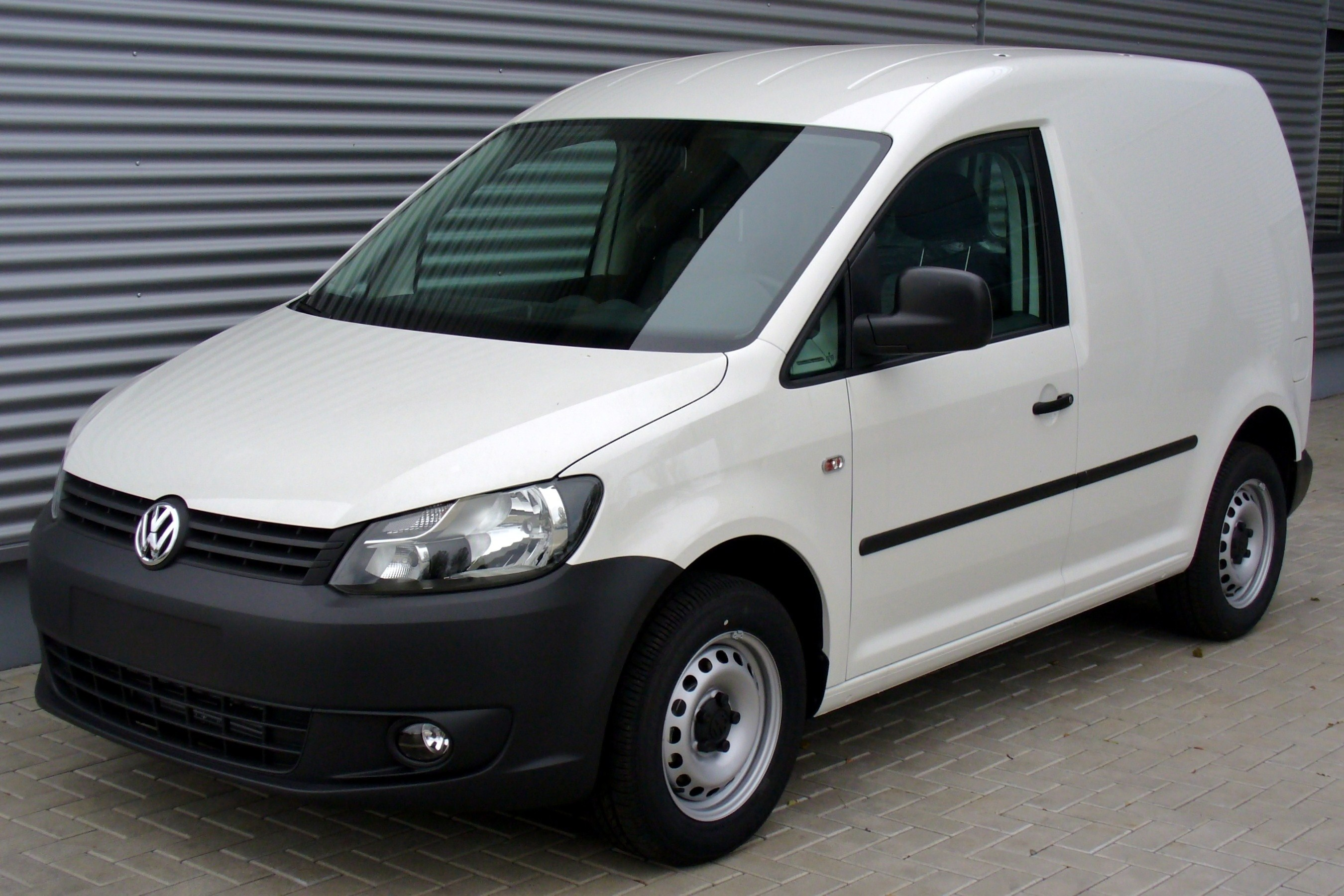 VW Caddy Kasten Facelift